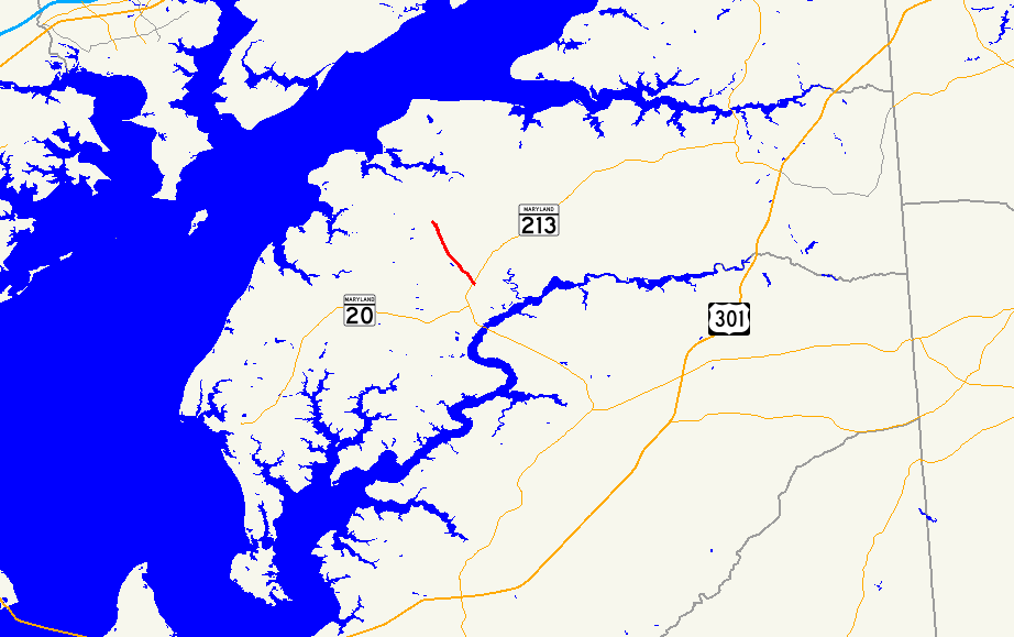 Map of Maryland Route 297